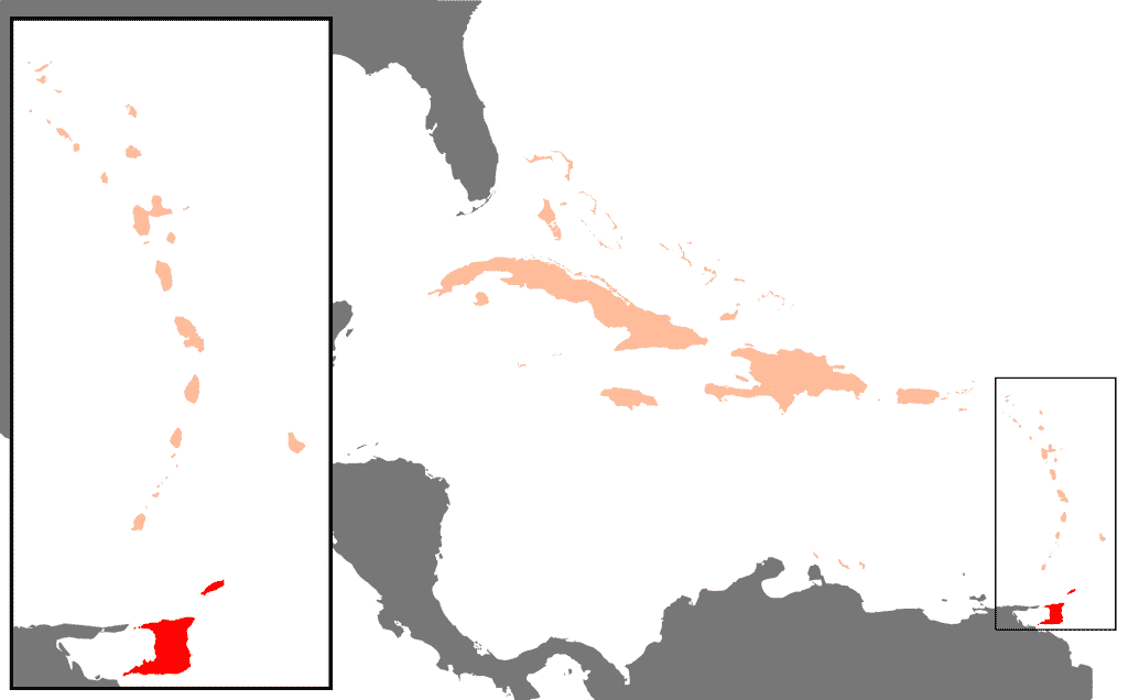 Position of Trinidad and Tobago in the Caribbean